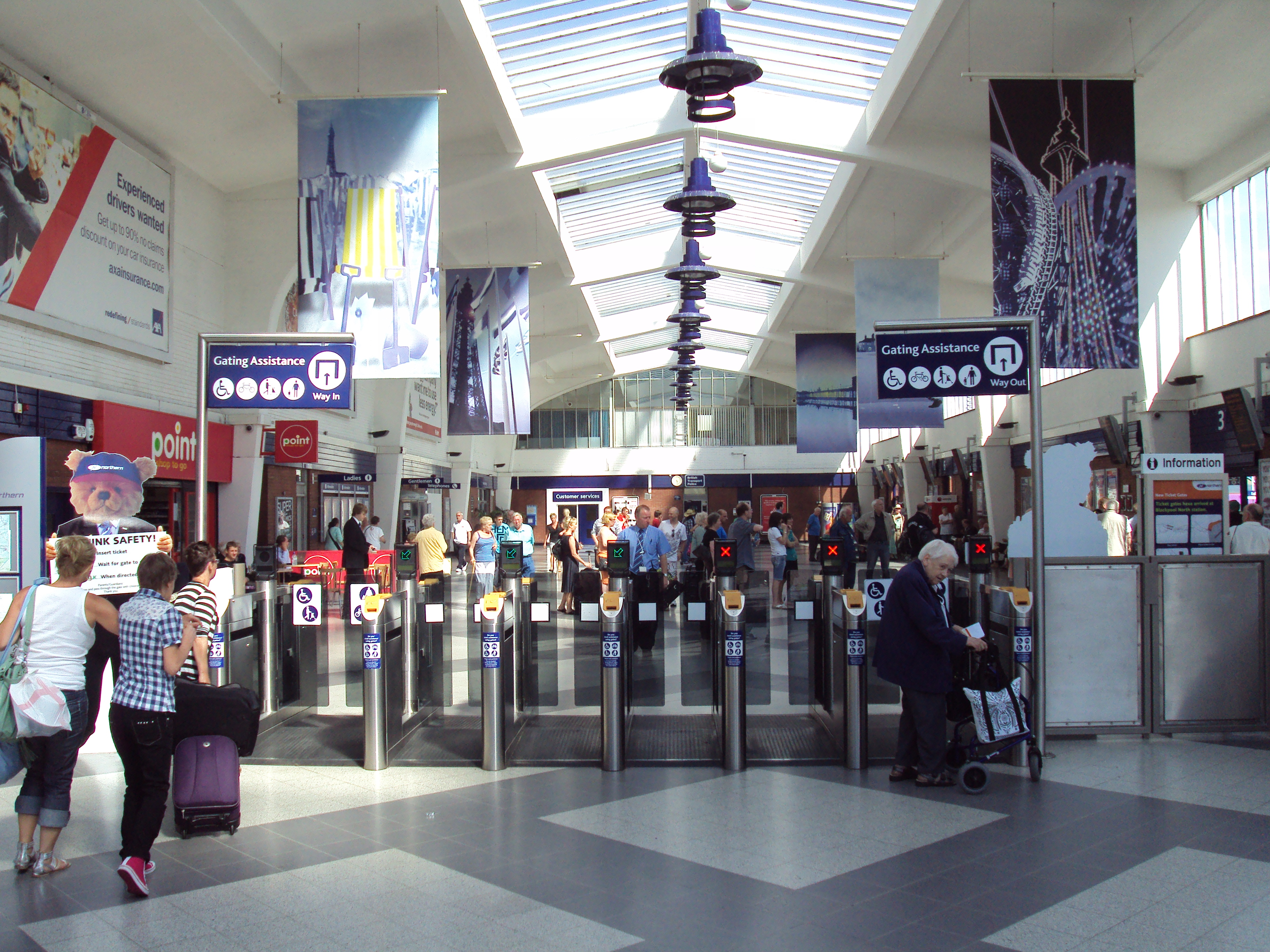 Ticket barriers at Blackpool North railway station, Lancashire, England.